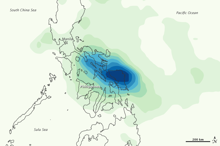 Rainfall amount of Tropical Storm Aere in Bicol Region